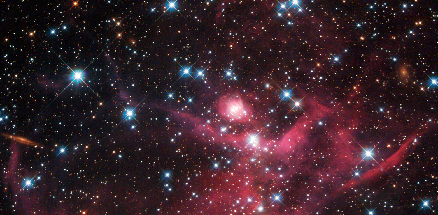 This stunning new Hubble image shows a small part of the Large Magellanic Cloud, one of the closest galaxies to our own. This collection of small baby stars, most weighing less than the Sun, form a young stellar cluster known as LH63. This cluster is still half-embedded in the cloud from which it was born, in a bright star-forming region known as the emission nebula LHA 120-N 51, or N51. This is just one of the hundreds of star-forming regions filled with young stars spread throughout the Large Magellanic Cloud. The burning red intensity of the nebulae at the bottom of the picture illuminates wisps of gas and dark dust, each spanning many light-years. Moving up and across, bright stars become visible as sparse specks of light, giving the impression of pin-pricks in a cosmic cloak. This patch of sky was the subject of observation by Hubble's WFPC2 camera. Looking for and at low-mass stars can help us to understand how stars behave when they are in the early stages of formation, and can give us an idea of how the Sun might have looked billions of years ago. A version of this image was submitted to the Hubble's Hidden Treasures image processing competition by contestant Luca Limatola.